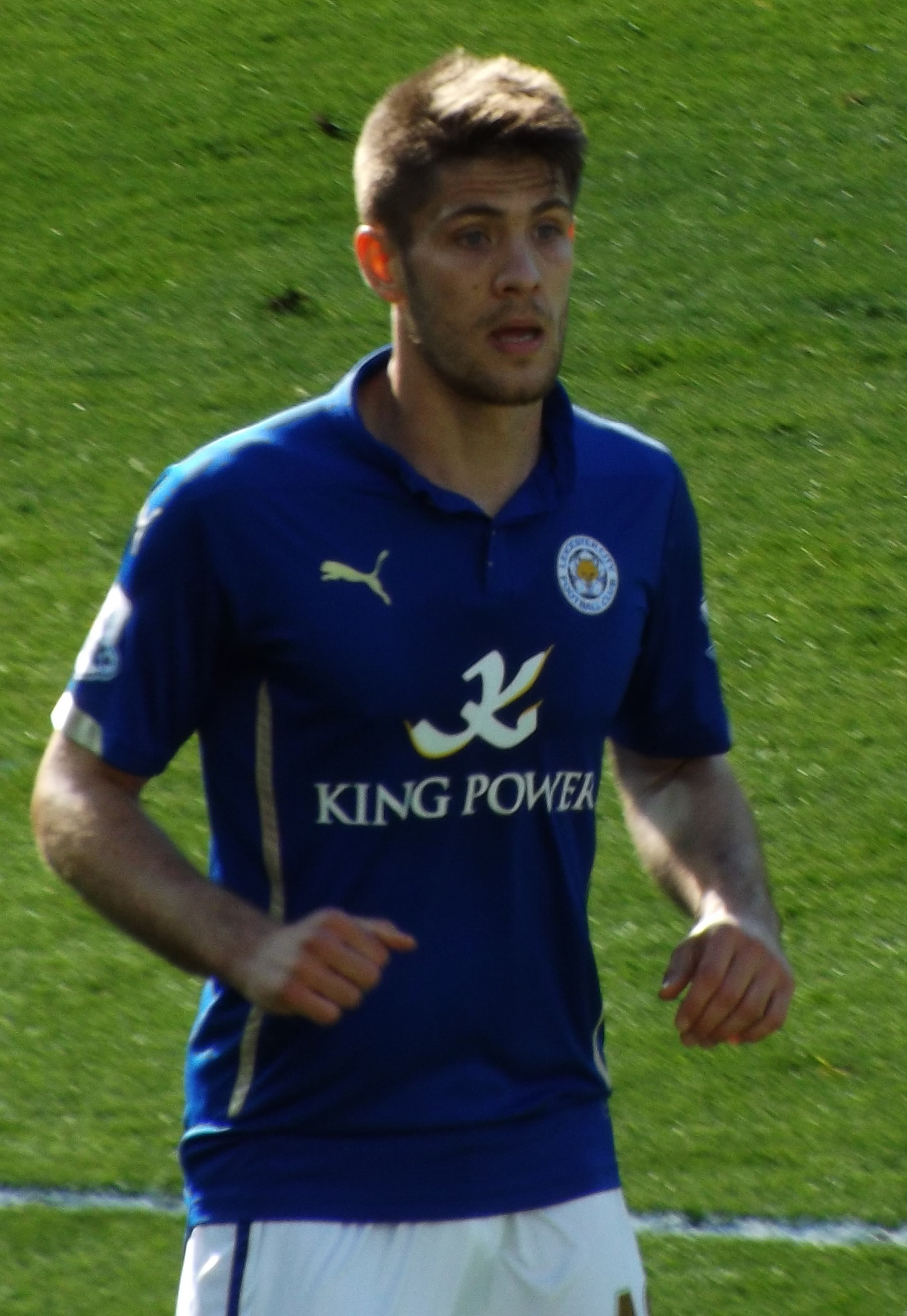 Andrej Kramarić playing for Leicester City F.C. against Swansea City.